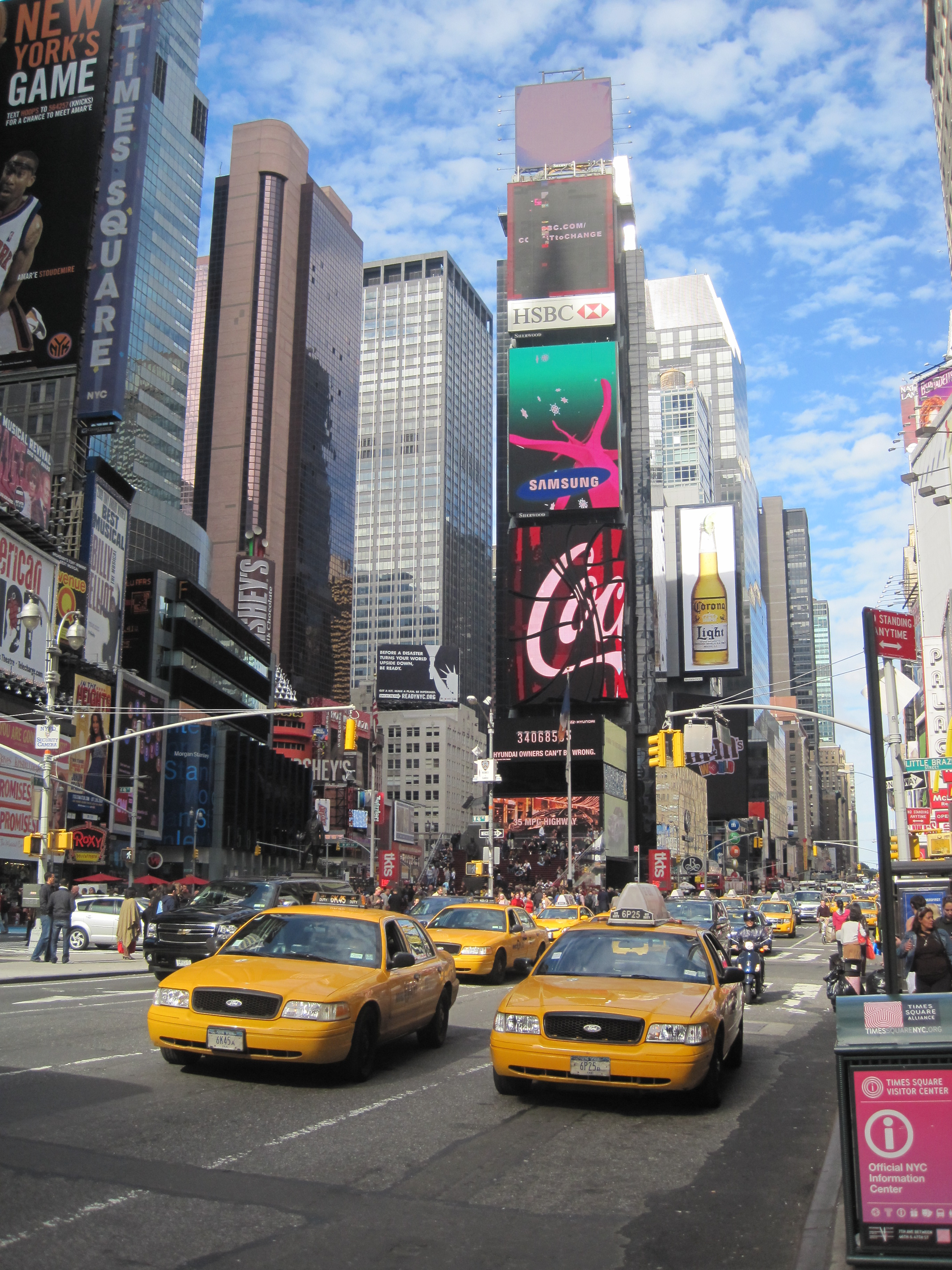 Times Square New York